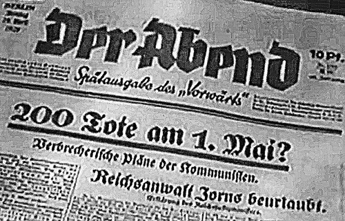 Berlin daily "The Evening" smears on 29th April 1929: «200 casualities on 1st of May? - Criminal plannings of the communists.»